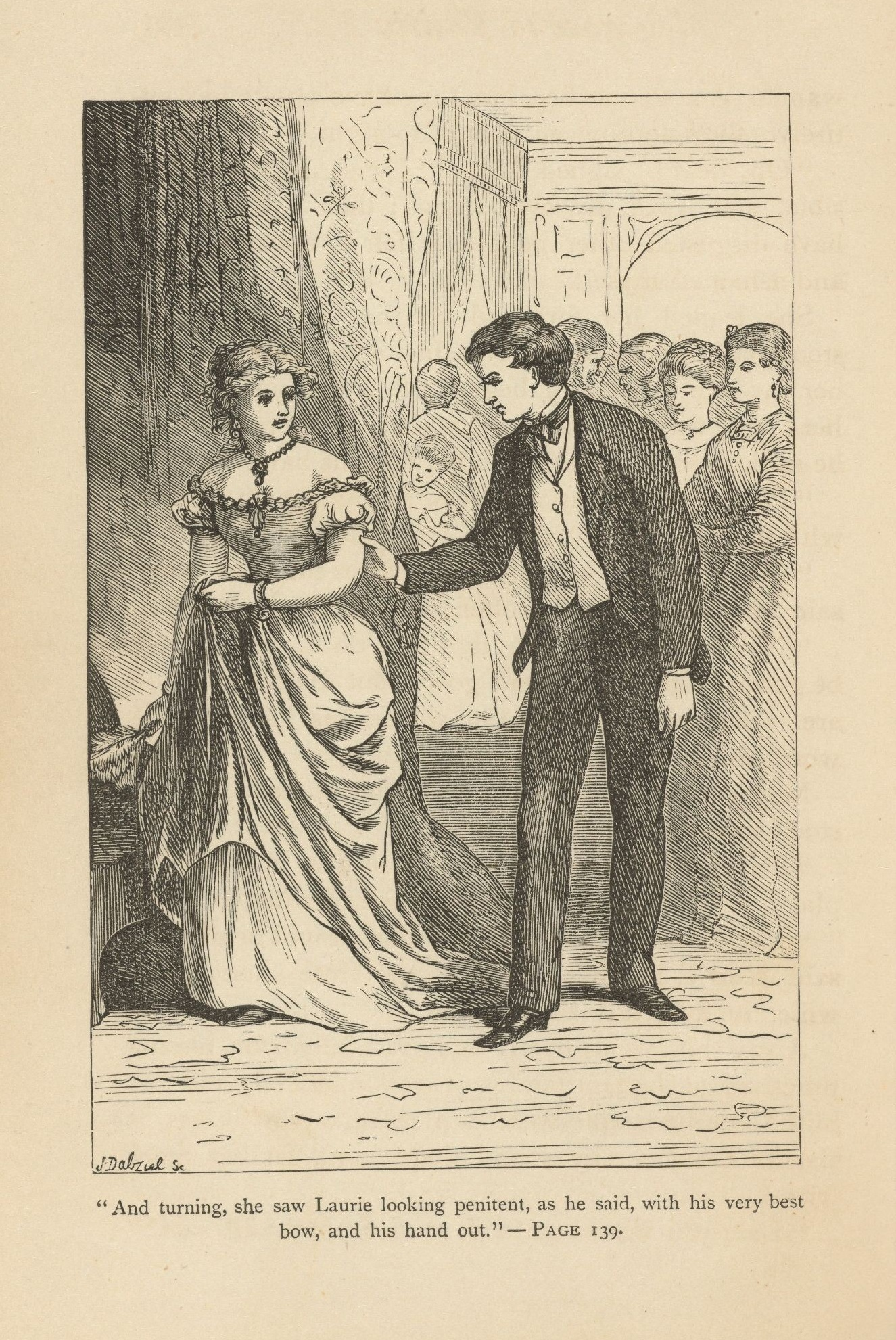 Frontispiece illustration from part 1 of Little Women by Louisa May Alcott (1832-1888), illustrated by her sister May Alcott. Boston: Roberts Brothers, 1868. *AC85.Aℓ194L.1869, Houghton Library, Harvard University